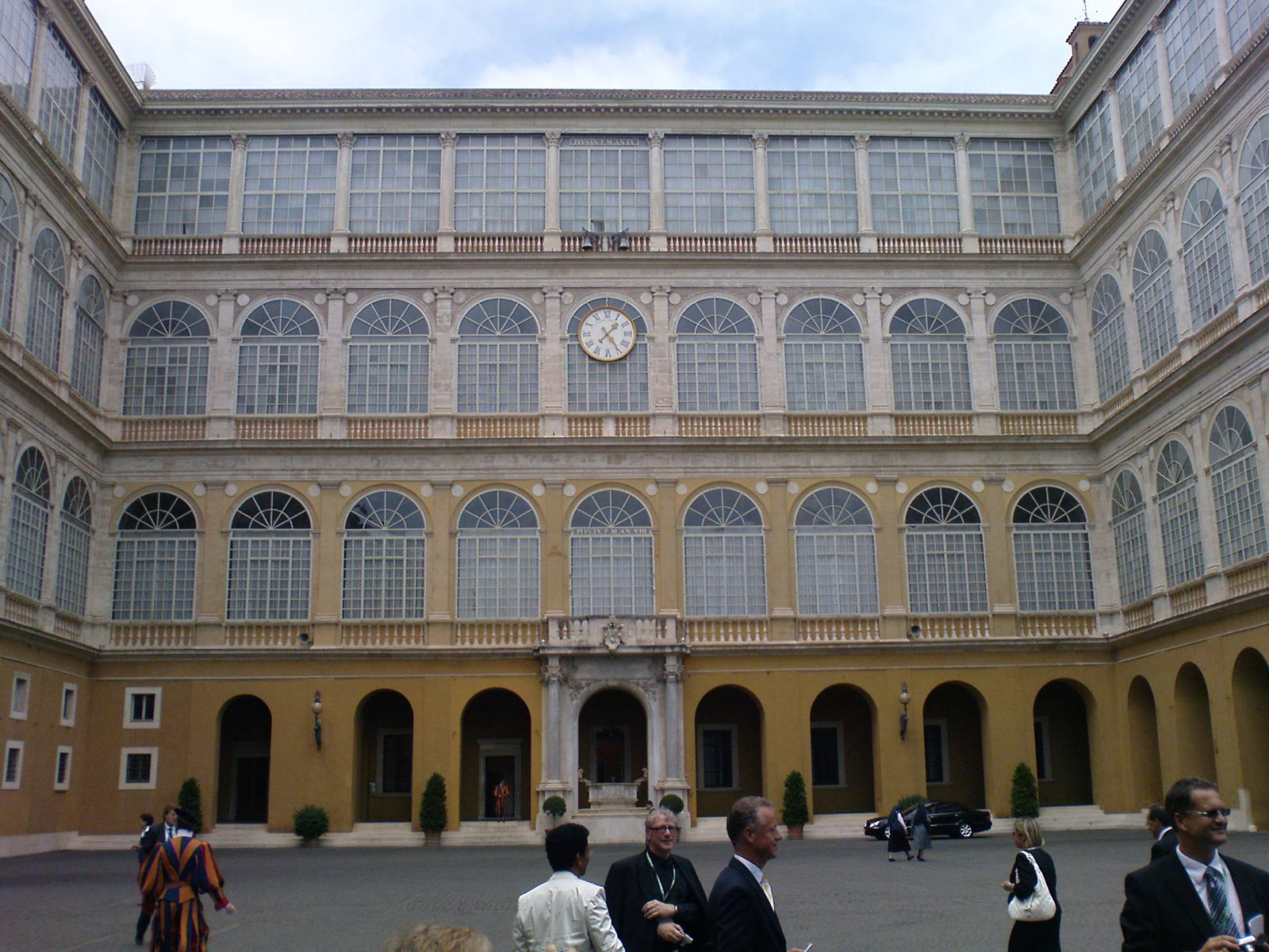 Apostolic Palace, Facade Cortile di San Damaso